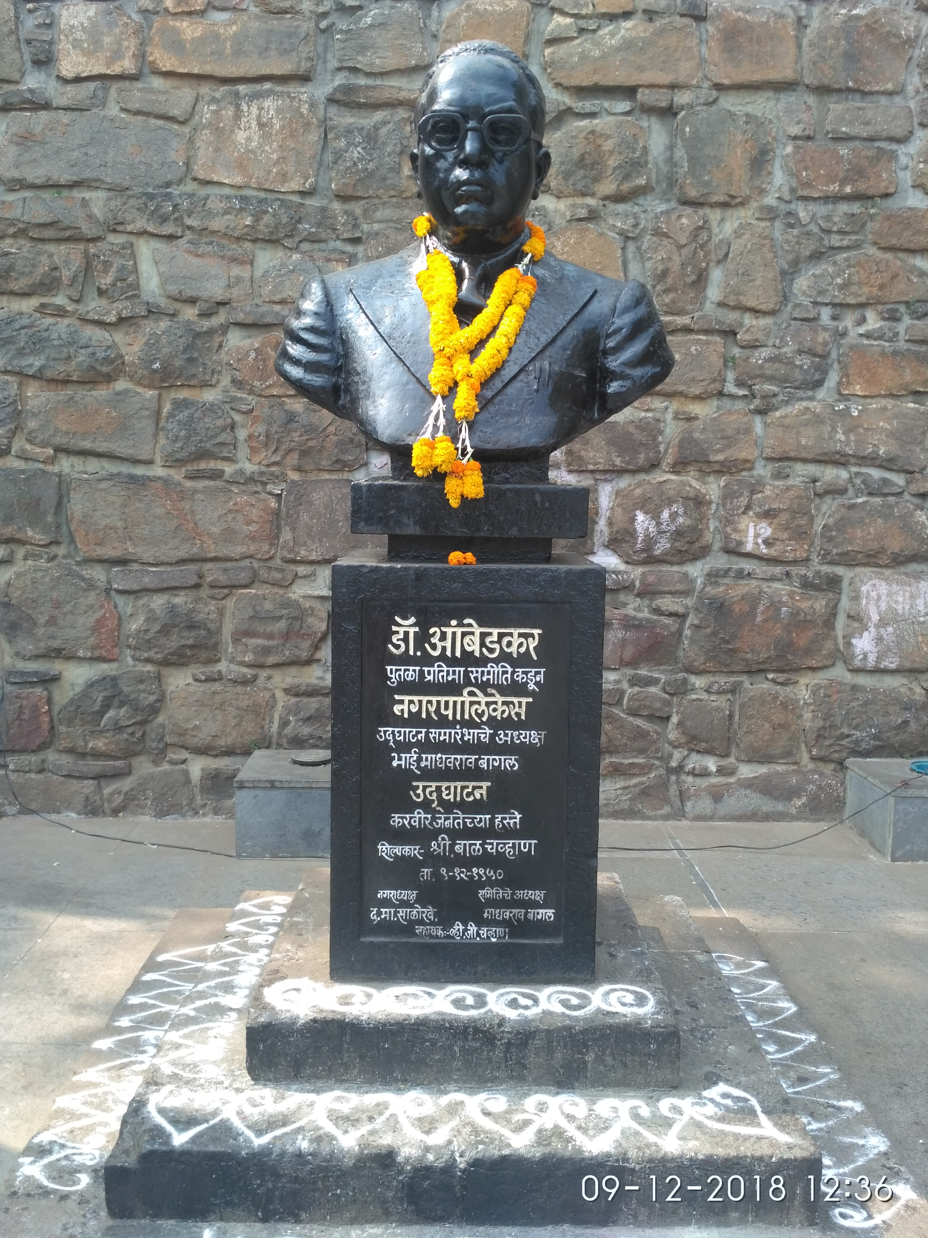 Bust of Dr. Babasaheb Ambedkar at Bindu Chowk in Kolhapur, Maharashtra, India. This Dr. Ambedkar's statue is the world's first statue of Babasaheb Ambedkar, inaugurated on 7 December 1950.